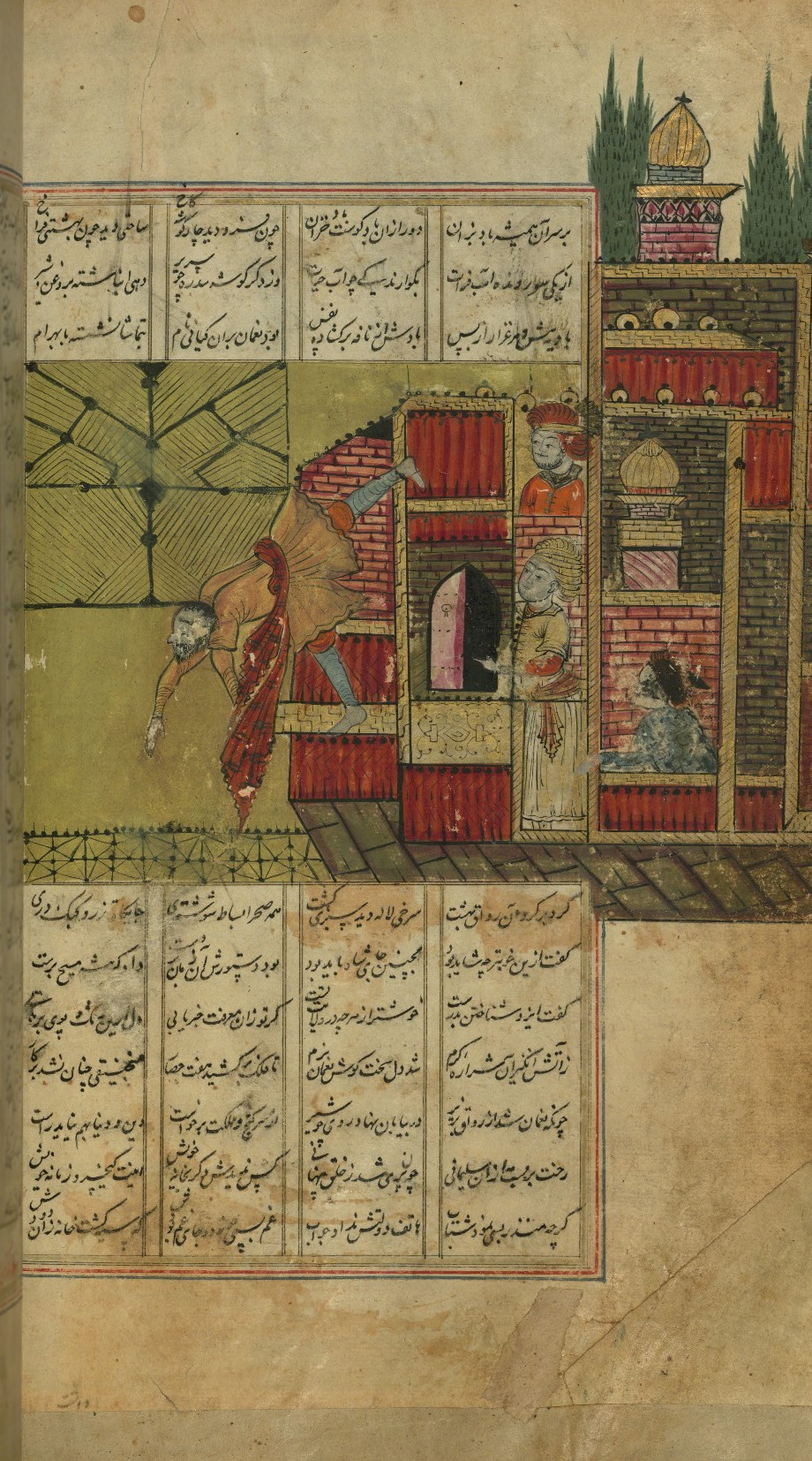 Illuminated Manuscript, Five poems (quintet), Nuʿmān, father of Bahrām Gūr, throws a builder from the roof of the palace Khavarnaq, Walters Art Museum Ms. W.612, fol. 186b